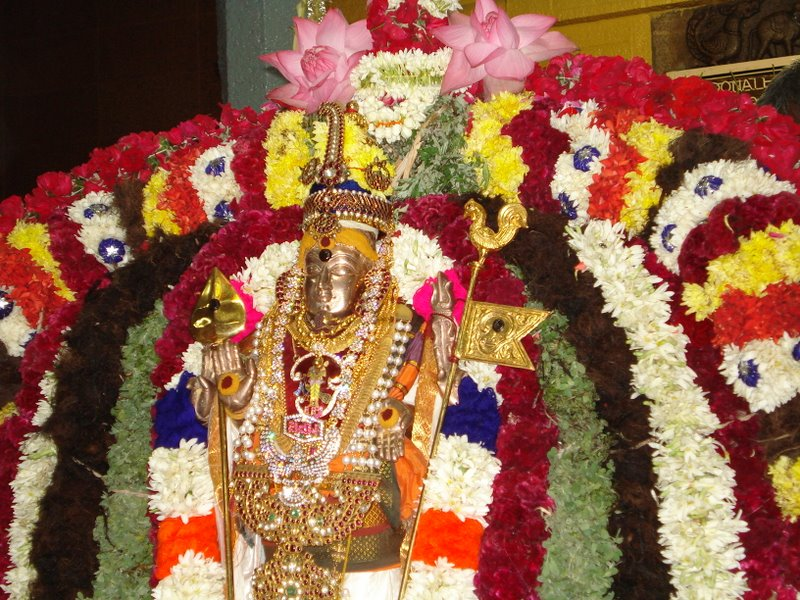 The Precious God Muruga. This maha Kumbabhishekam happened after a long 21 years of wait. It was great to watch such a cultural and auspicious festival related to Tamil culture. With Regards, Ranjanibalaji